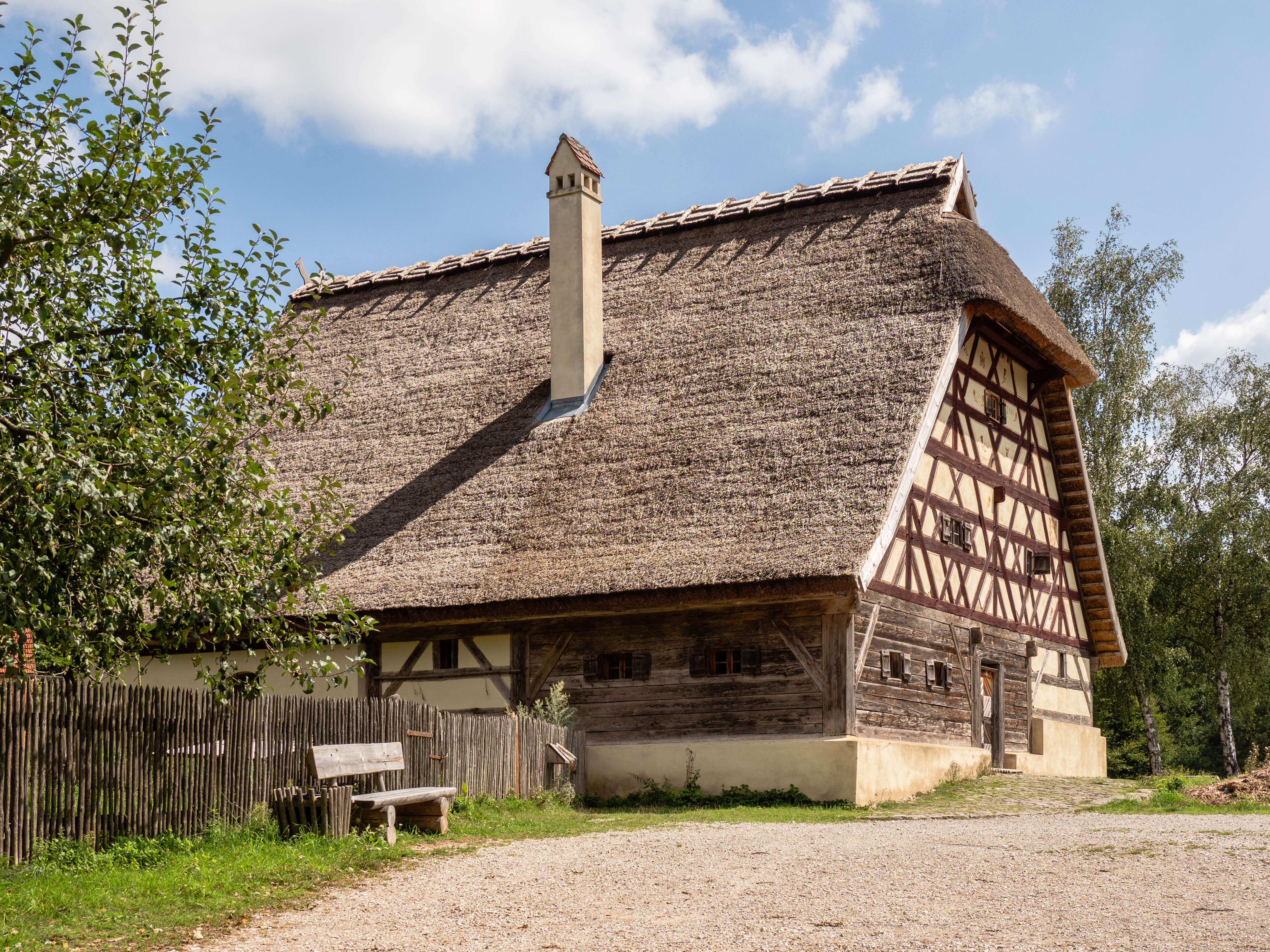 Paulerverl BJ.1697 from Pavelsbach in the open-air museum Oberpfalz in Neusath